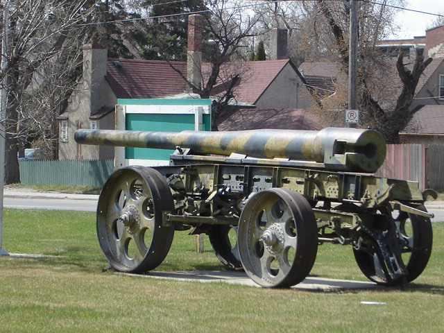 Saskatoon cannon in front of Idylwyld Avenue, Hugh Cairns Armoury This is a 15 cm Kanone 16 Obtained by the armoury, this weapon was originally presented to the City of Saskatoon by the Government of Canada in 1919. The gun trails travelled separately, and have been lost.